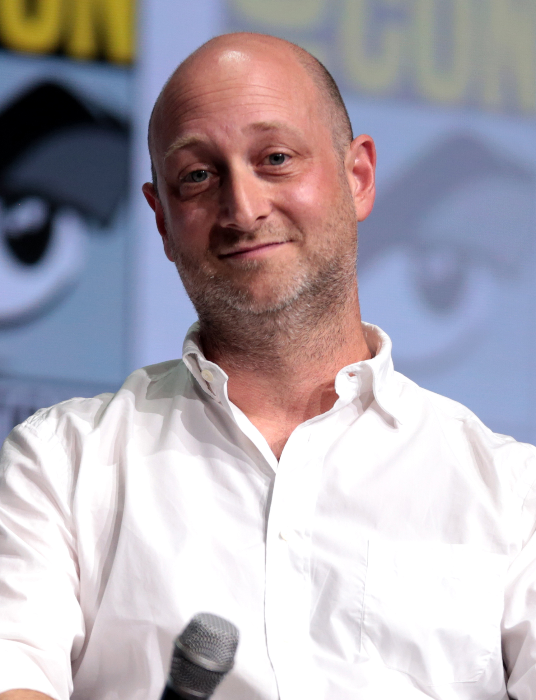 Michael Green speaking at the 2017 San Diego Comic-Con International in San Diego, California.